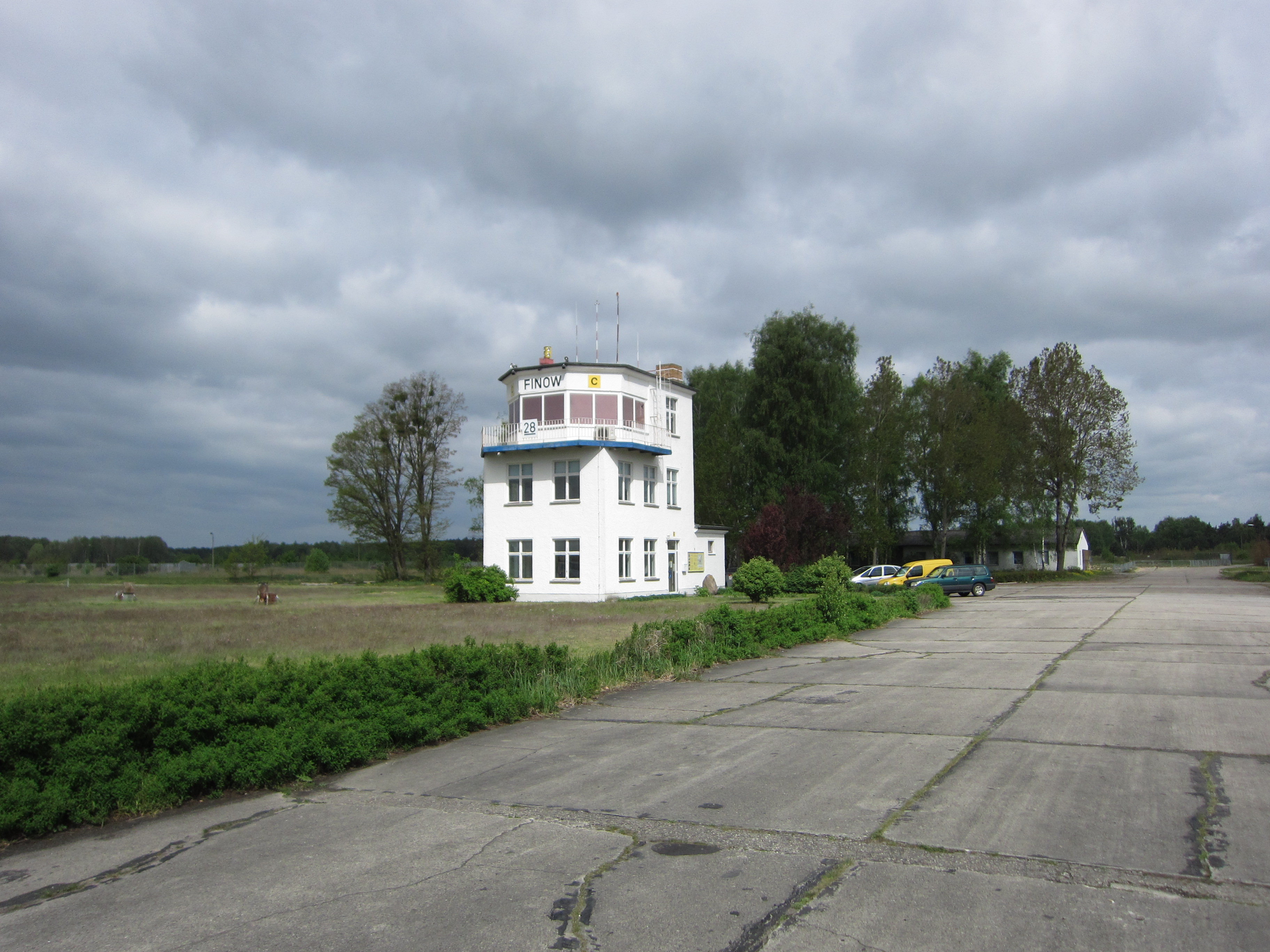 Tower of Finow Airport.